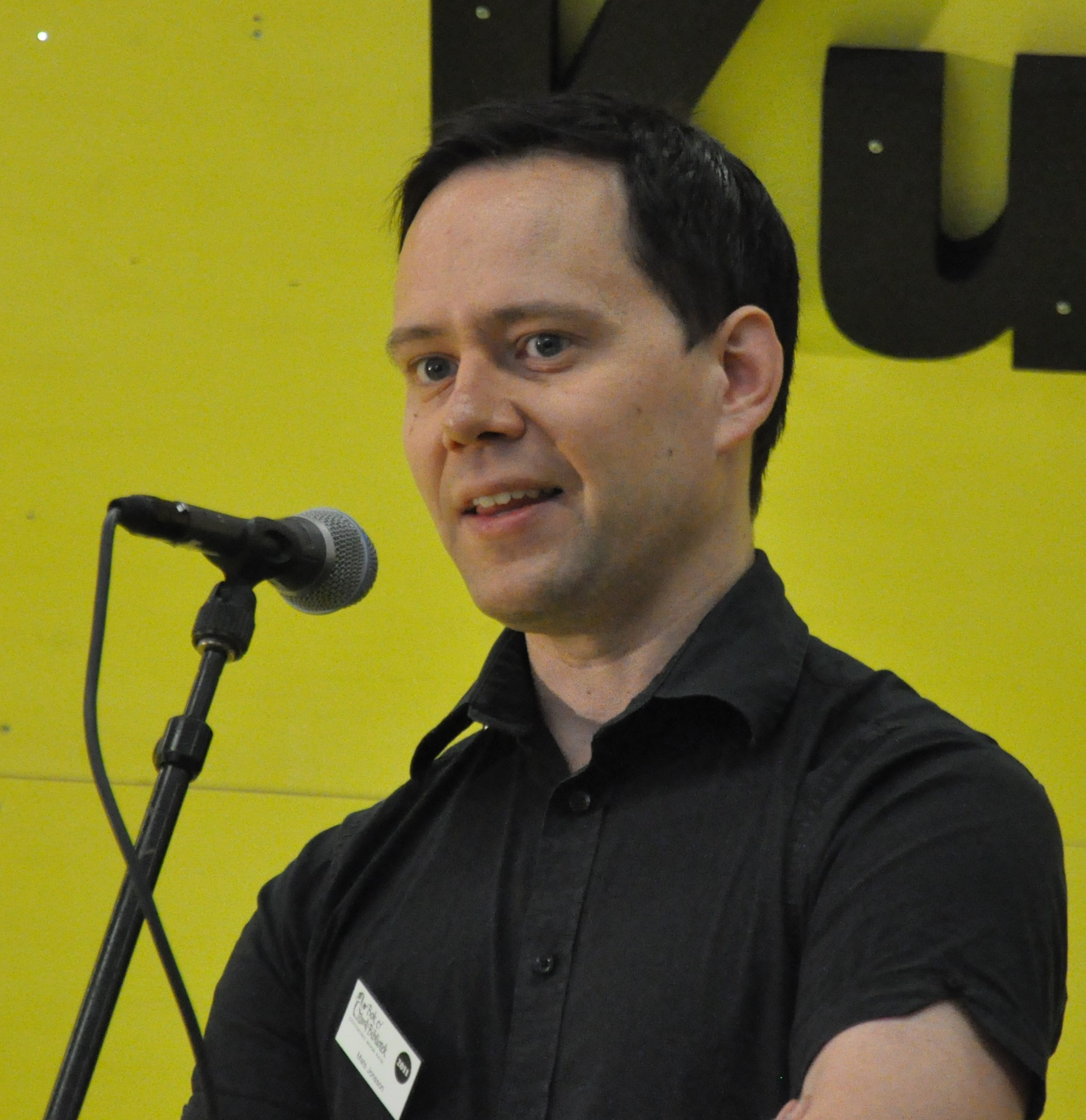 Mats Jonsson på Bokmässan i Göteborg 2011